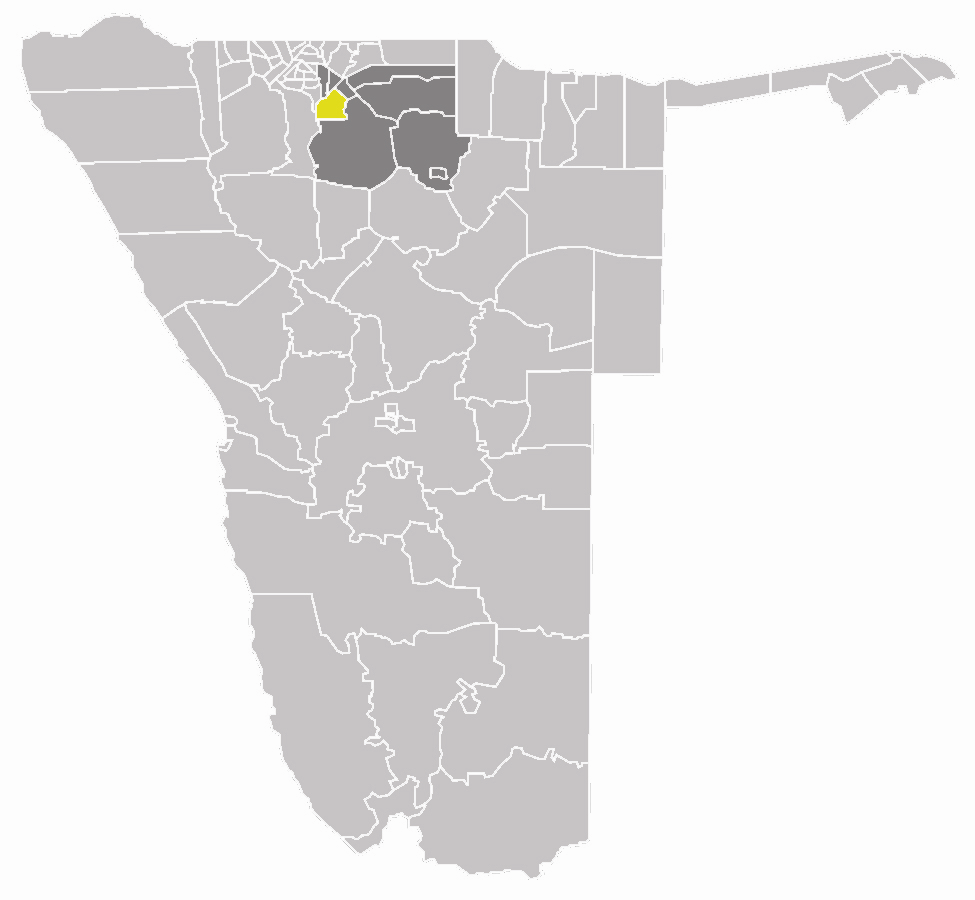 map of the Omuntele constituency within the Oshikoto region, Namibia